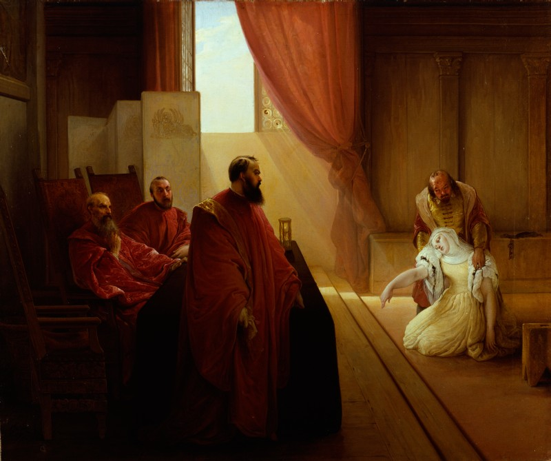 This painting purchased on the antique market entered the Cariplo Collection in 1971. It was executed in 1835 for Andrea Maffei, poet, translator and iconographic adviser to Francesco Hayez. He subsequently gave it to his wife Clara who displayed it in her famous and much frequented salon in Milan. The work adds a fictional element to a historic episode, which at the time had become familiar through literary works: the tragedy Antonio Foscarini by Giovanni Battista Niccolini, published in Florence in 1827, and the French novel Foscarini ou le patricien de Venise. Valenza Gradenigo, guilty of having attempted to save the man she loved – Senator Antonio Foscarini, condemned for treason in 1622 – is led before the Venice Inquisitors who include her father, the inflexible judge depicted in the centre of the room. Set against the skilfully studied theatrical setting of the scene with its contrasting figures and calibrated light effects is a silent dialogue of glances and expressions exchanged between the characters: the father’s stern composure, the furtive glance of the servant supporting the woman, the scornful expression of the young judge. Valenza Gradenigo before her Father the Inquisitor, the first version of the painting executed in 1832 for the Milanese notable Antonio Patrizio, in the small format of an anecdotal painting, was donated to the Brera Academy in 1900, and is now in storage at Villa Carlotta in Tremezzo, while the later versions of the same subject dating from 1845 are lost. This second version was particularly popular with both critics and public, and Pietro Bagatti Valsecchi made many prints of it as well as enamel miniatures on copper and porcelain. This initiated a trend towards the depiction of obscure and tragic Venetian historical episodes in history painting, which were often replicated in different versions such as Last Meeting between Jacopo Foscari and his Family Before Being Sent into Exile, also in this collection.